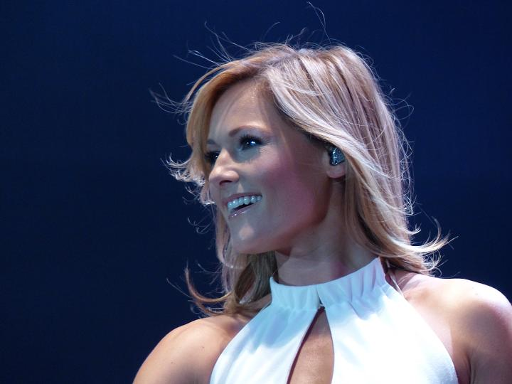 Helene Fischer during a Concert at the Schleyerhalle Stuttgart (17/6/2013)